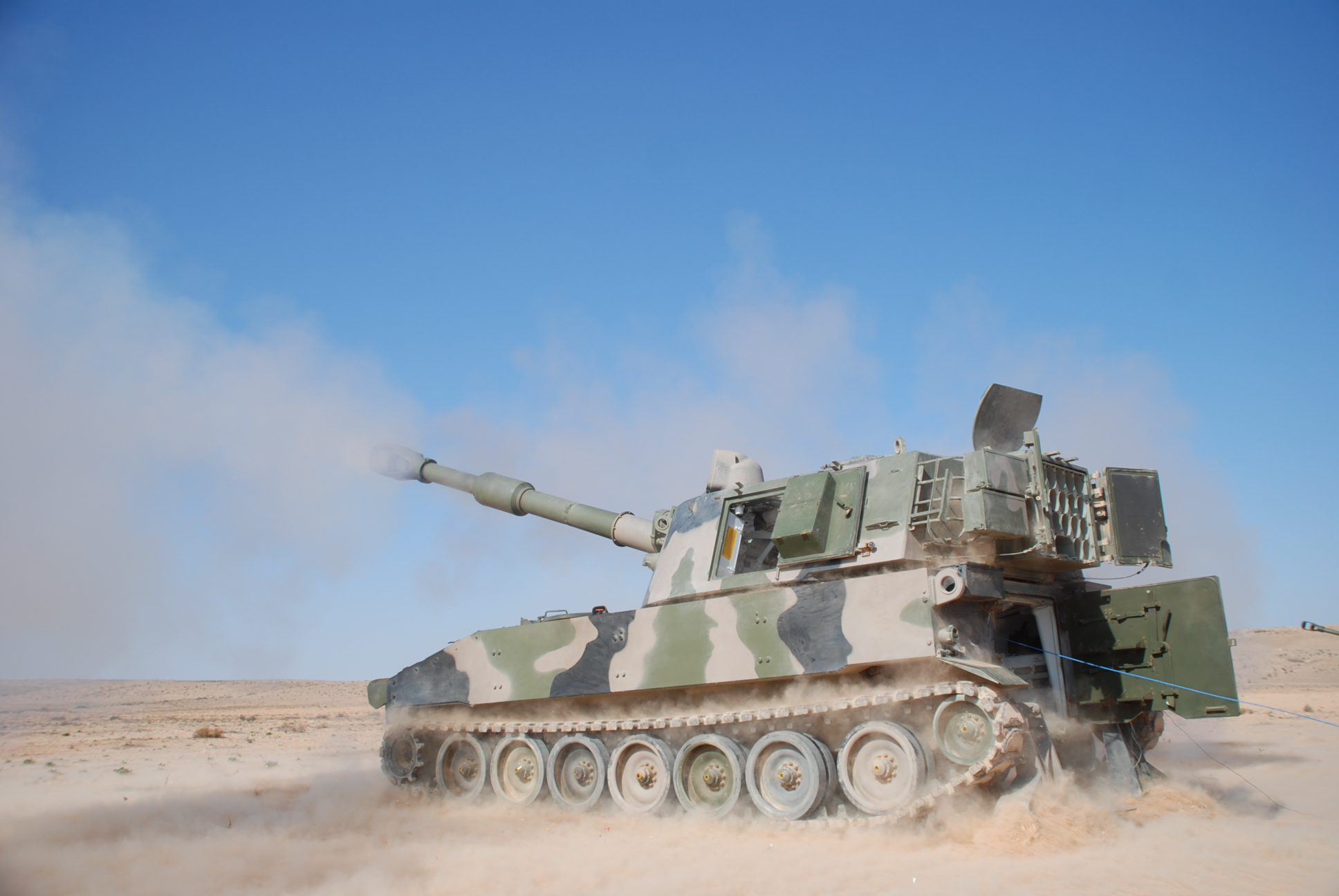 A M109A5 Howitzer from the Moroccan 15th Royal Artillery Group is firing during an artillery tactics military to military event observed by the US military. Live fire exercises included forward observer procedures, fire direction center procedures and gun line crew drills. (Photo by Maj. Tyrone Martin)